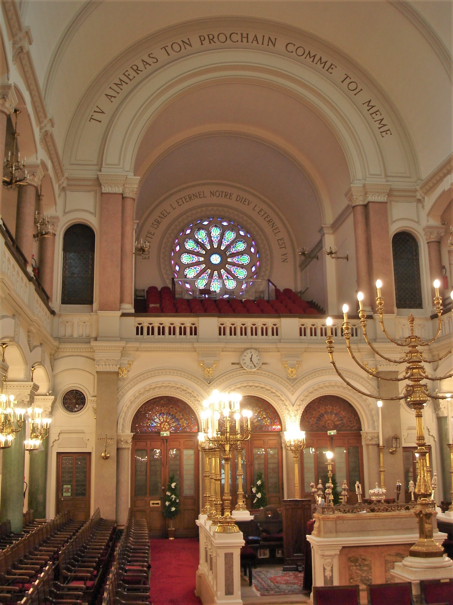 Synagogue Buffault (Paris)